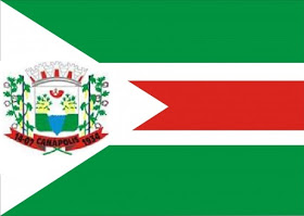 Flags of the city of Canápolis, Minas Gerais, Brazil.